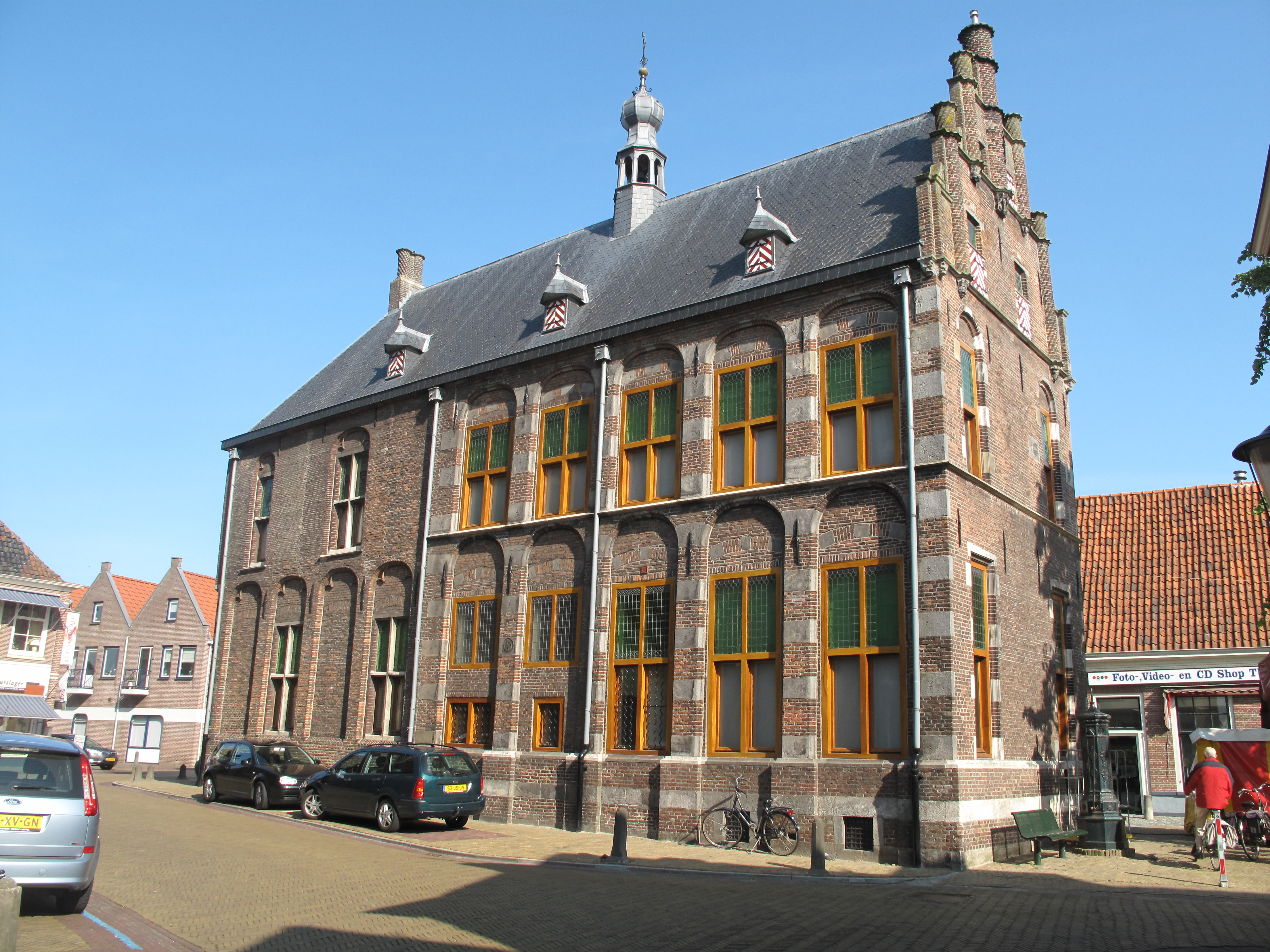 Hasselt, monumental building